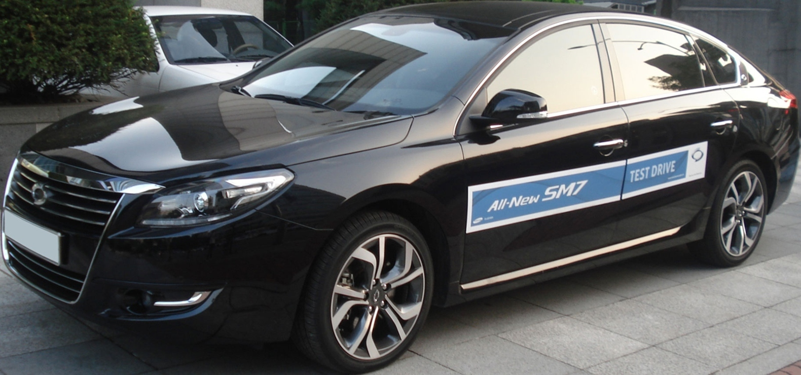 Renault Samsung All New SM7